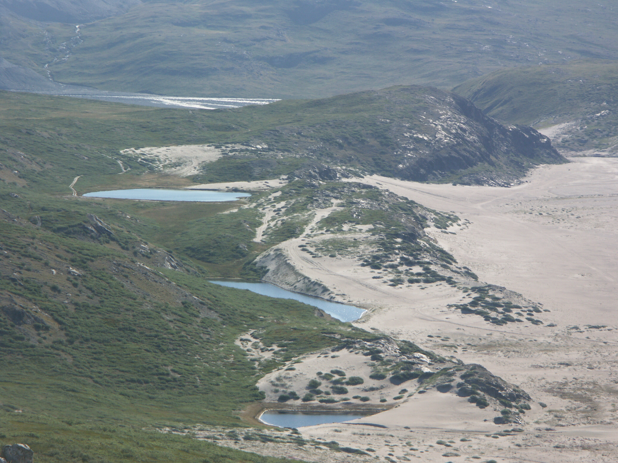 Small overgrown dunes and sandur quicksands of Akuliarusiarsuup Kuua valley, Greenland